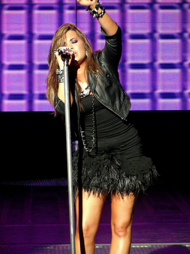 Jonas Brothers Live In Concert and The Cast of Camp Rock 2, September 2nd, 2010.